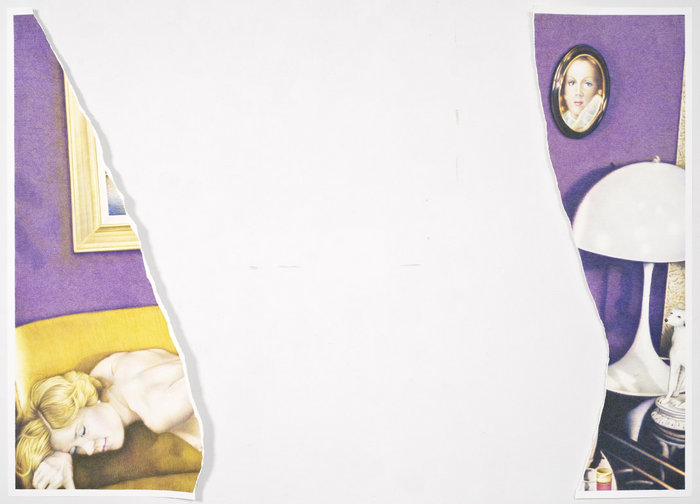 Slawomir Elsner Populaire 13 2011, 168 x 237 cm, crayon on paper